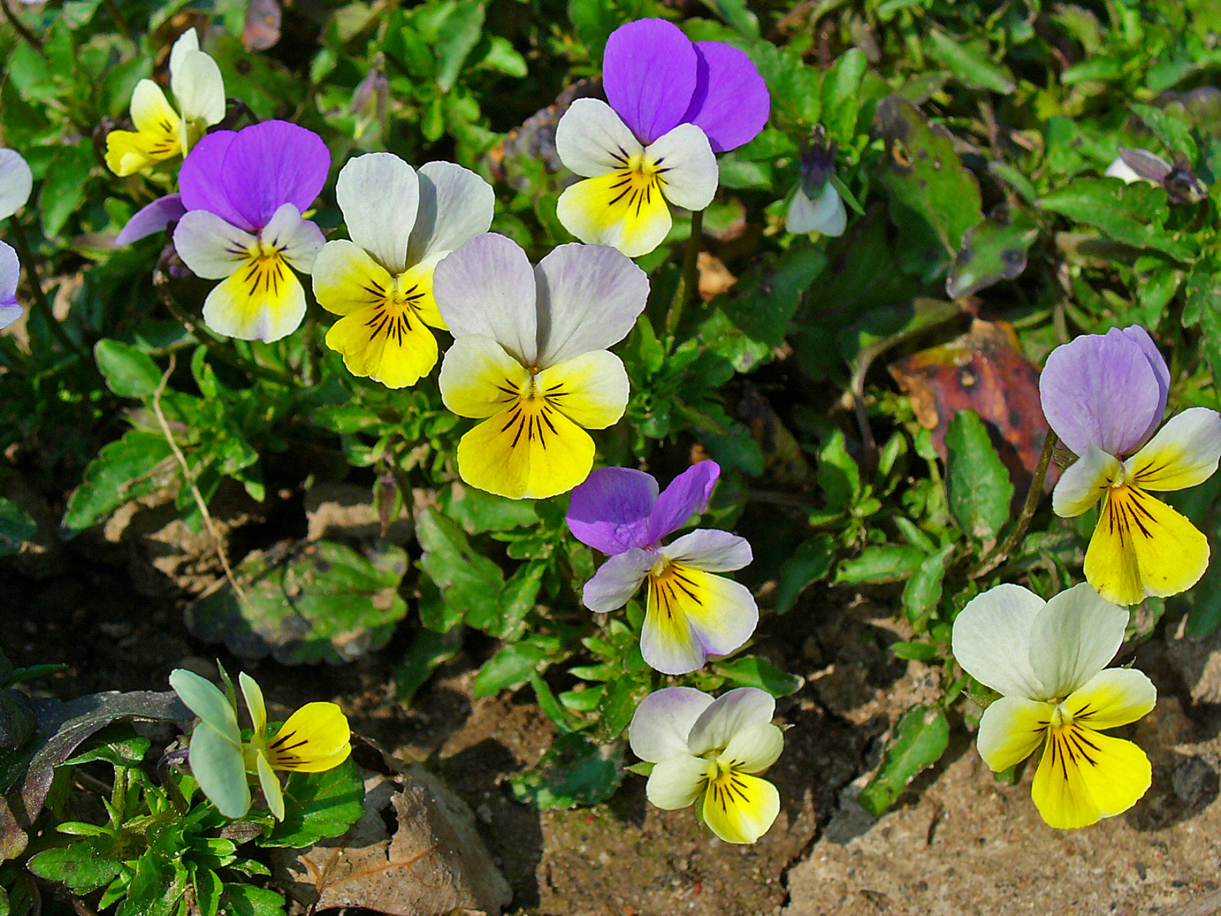 Viola tricolor, Violaceae, Heartsease, Wild Pansy, habitus.